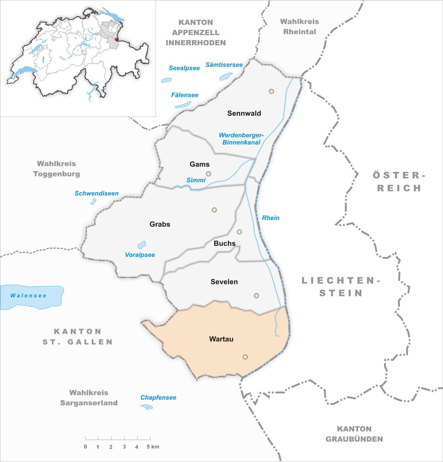 Municipality Wartau